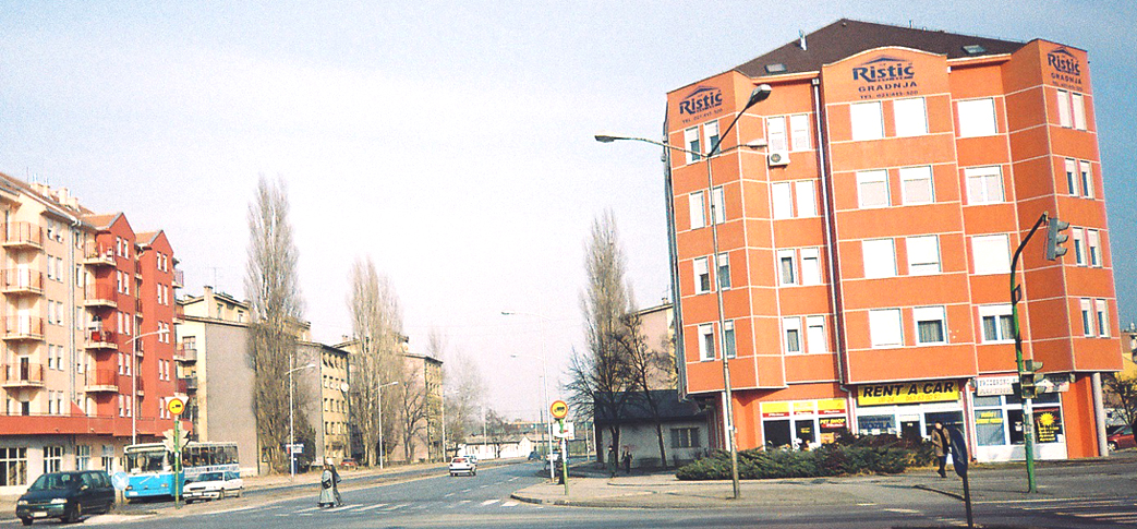 Image of Banatić neighborhood in Novi Sad (self made)